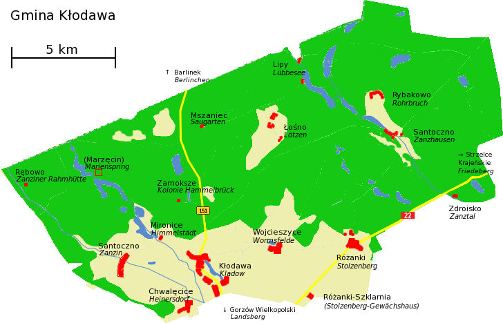 A Map of the Gmina Kłodawa in the Polish Voivodeship Lubusz with names in Polish and in German